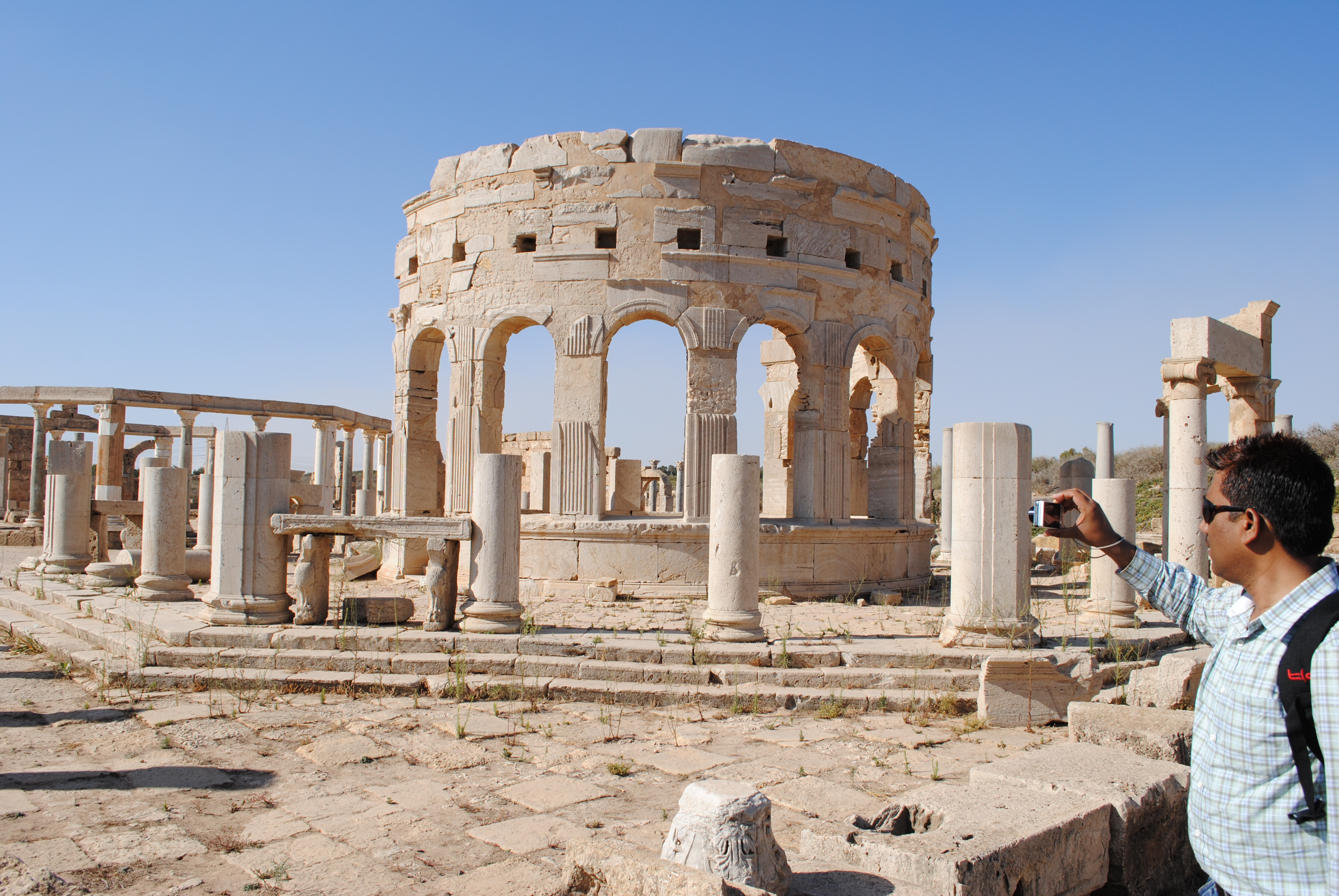 Leptis Magna, Al-Khums, Libya